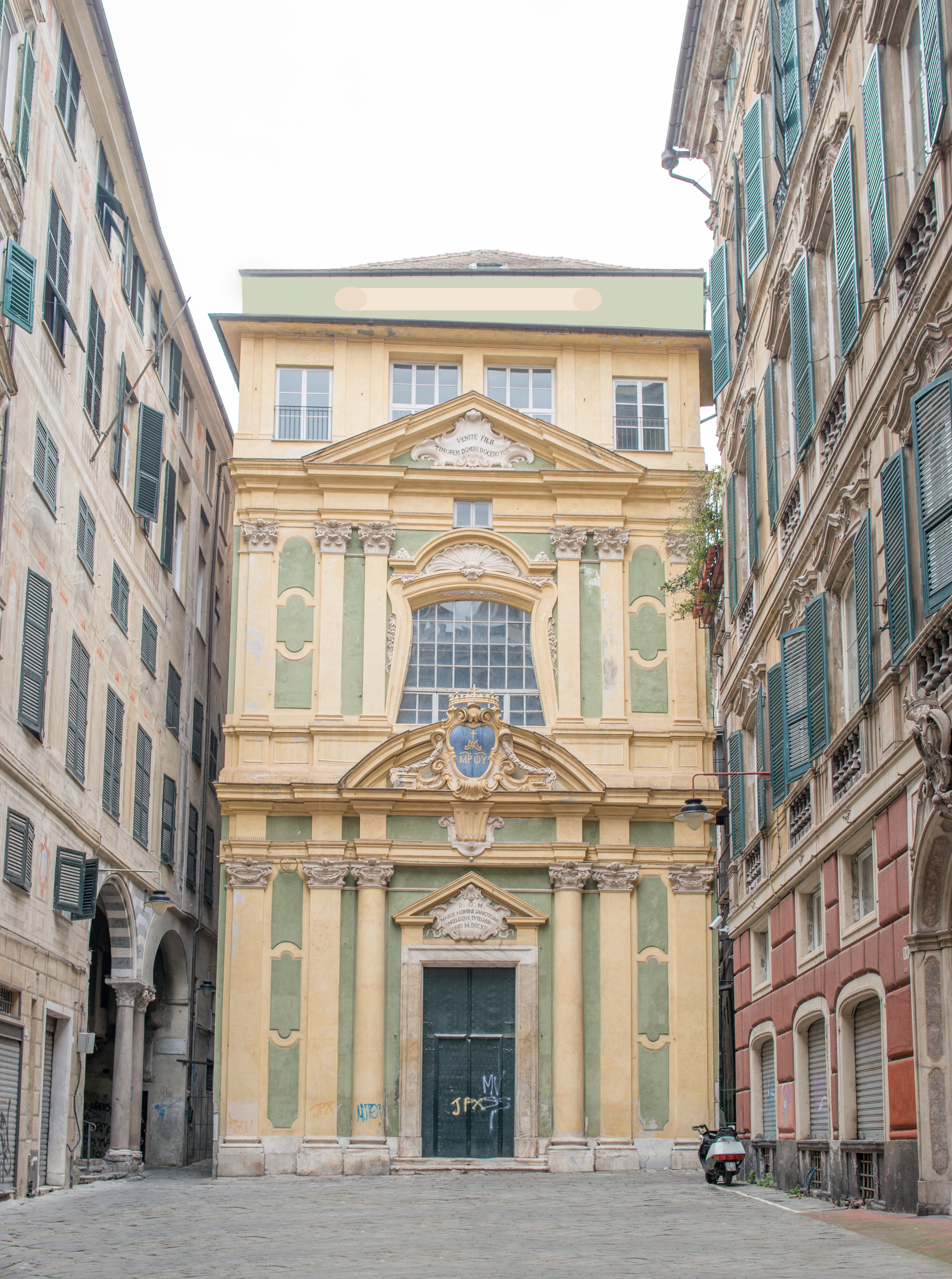 Genoa, Italy, Church of the Holy Name of Mary and Guardian Angels, commonly called "Scuole Pie"